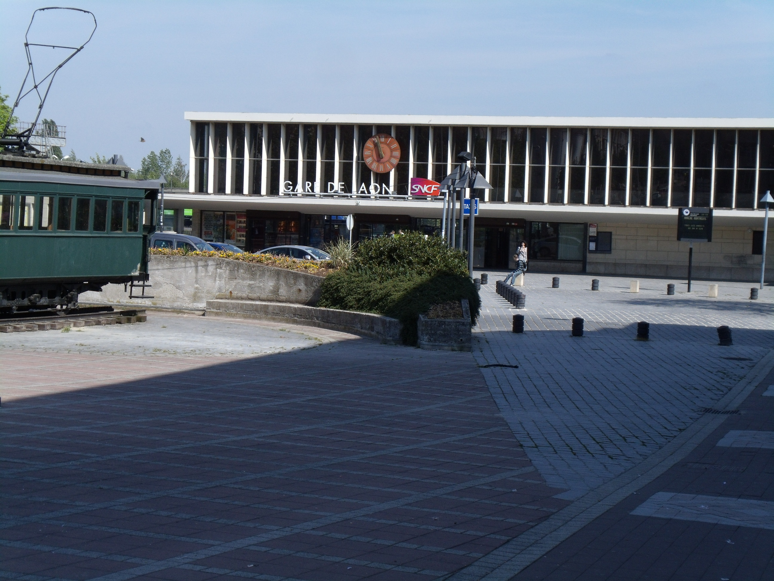 Laon station from the parking